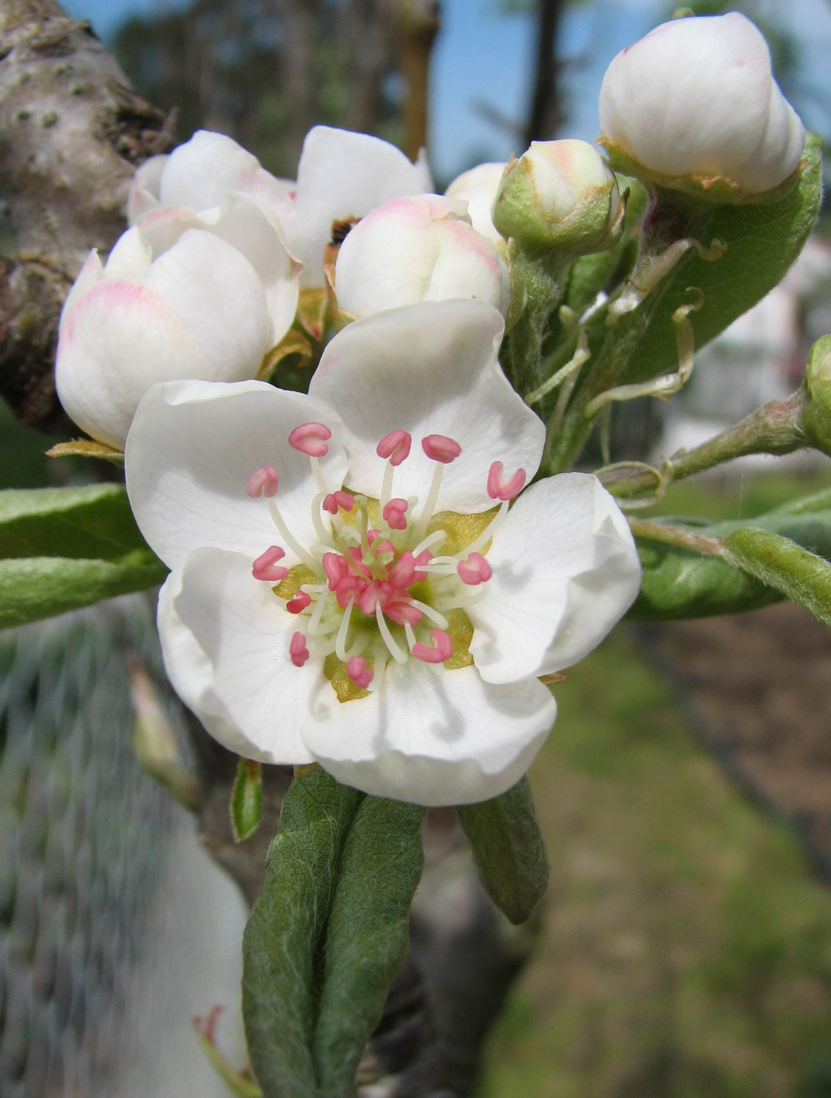 Pyrus communis - flower Location - Portugal